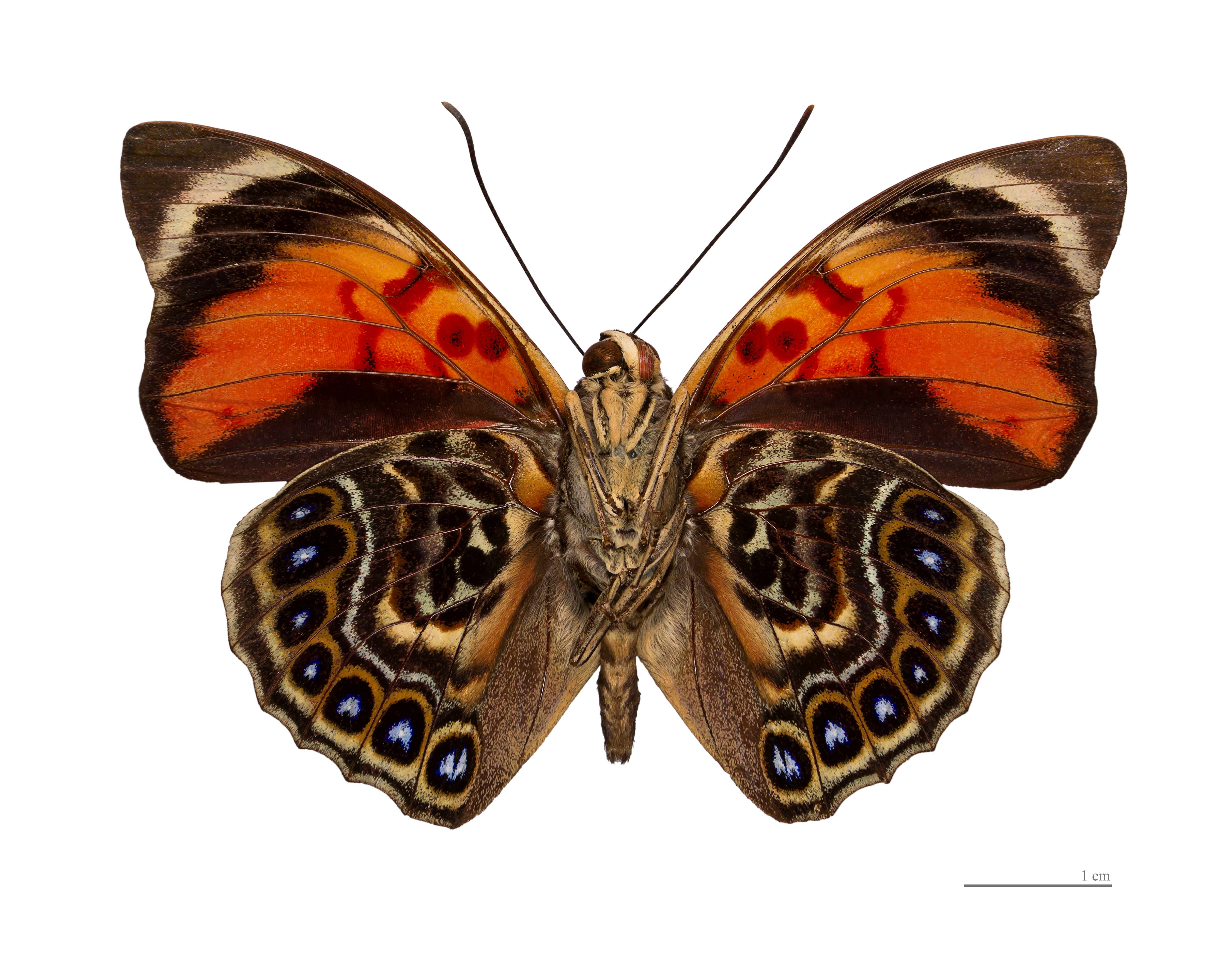 ♂ - △ Ventral side Locality : Cacao, Crique Baguot, French Guiana.